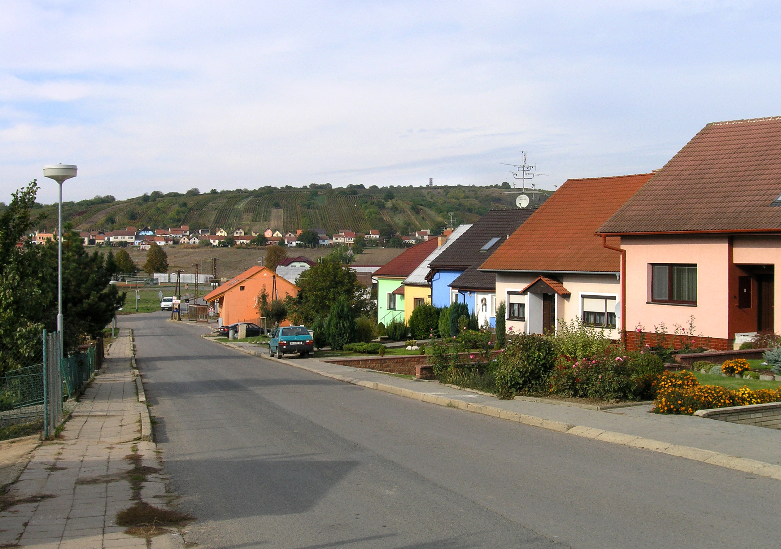 West part of Bořetice village, Czech Republic